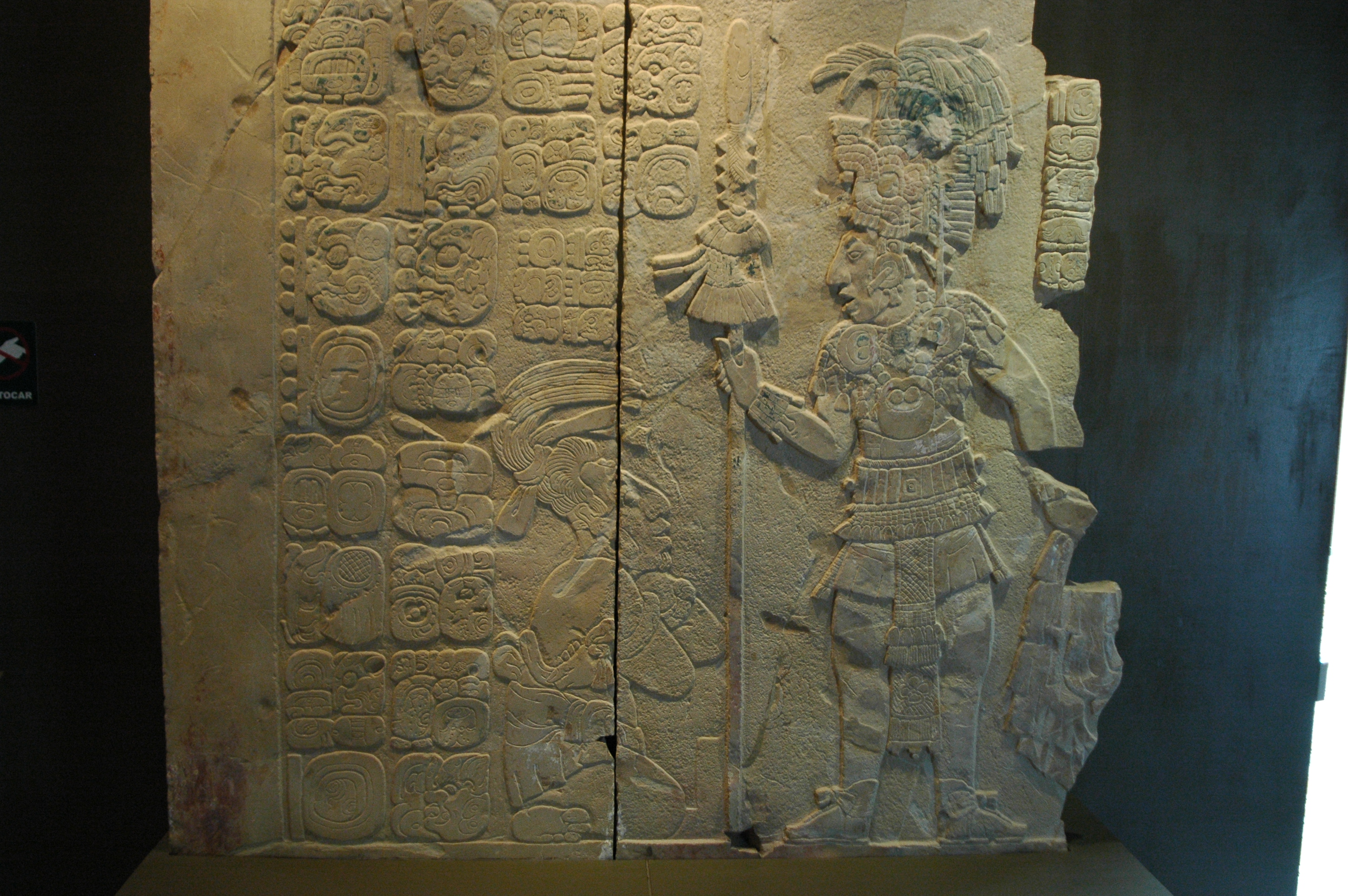 Maya site of Palenque, Chiapas, Mexico. King and captive from Tonina (the king is probably K'inich Kan Balam II). Sculpture from Temple 17. Museo del Sitio.